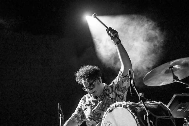 Mr. Pauer during his showcase at Circulart 2015.